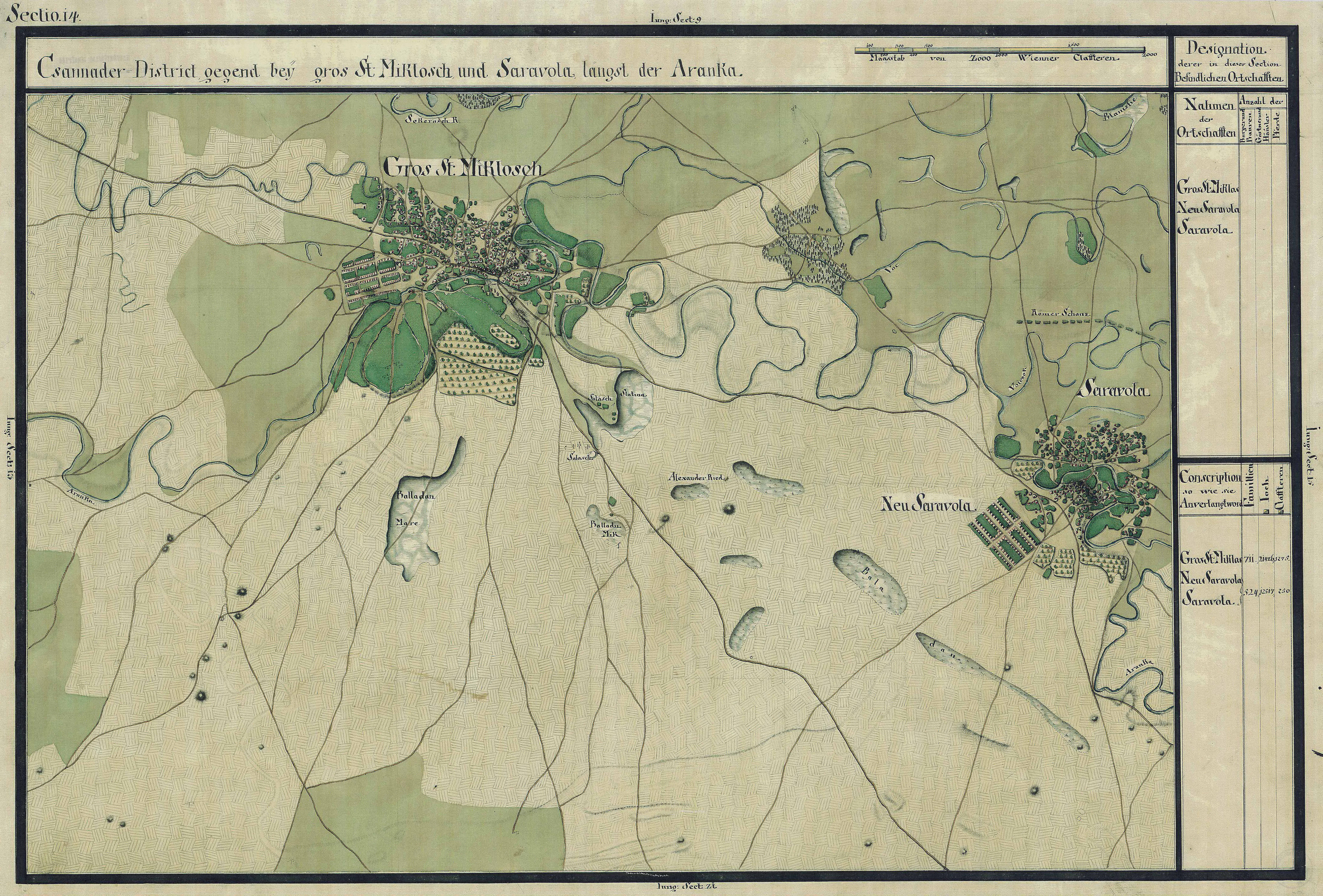 The Banat region in the cadastral maps: Josephinische Landesaufnahme, 1769-72. Josephinische Landaufnahme pg014